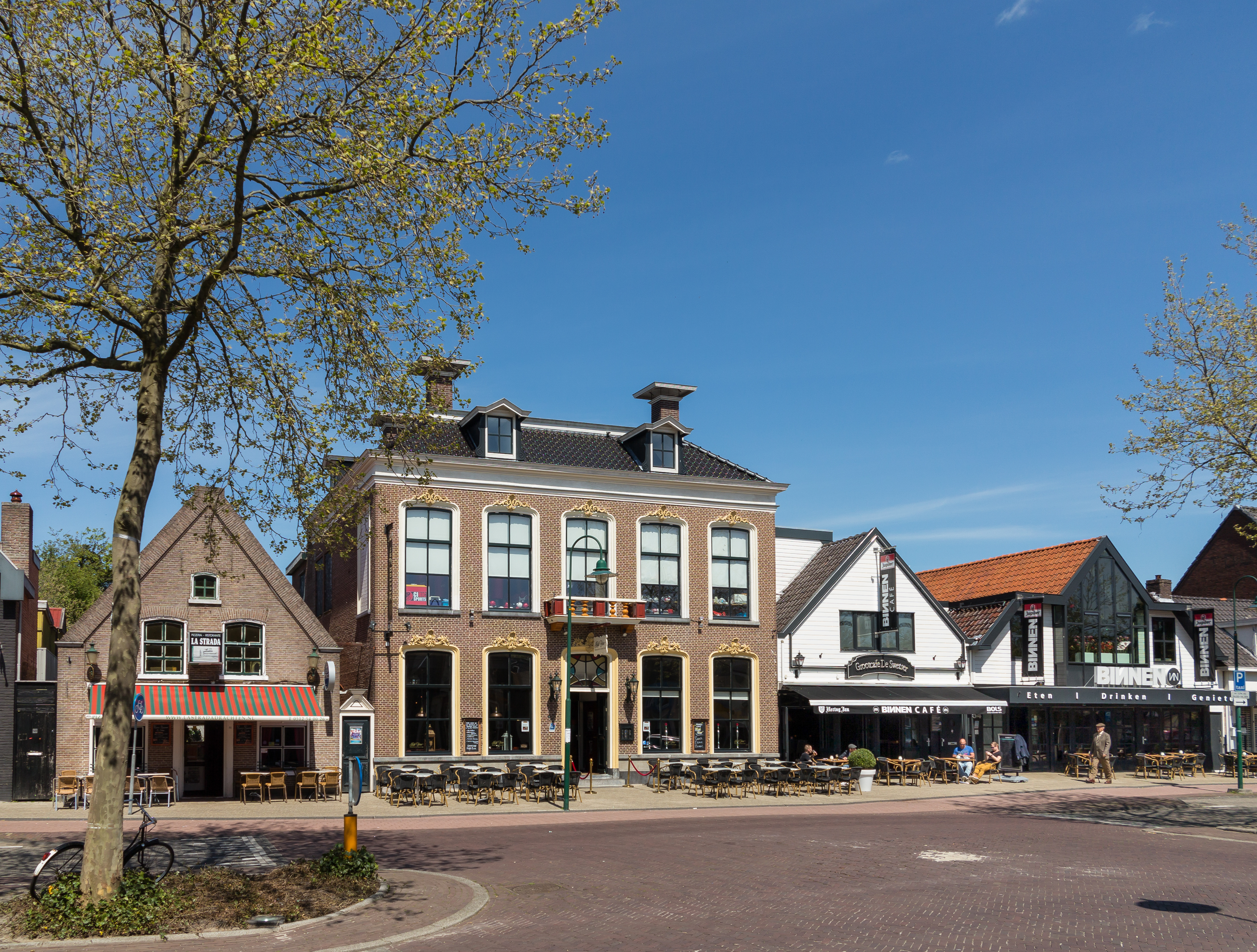 Drachten, monumental house in the street